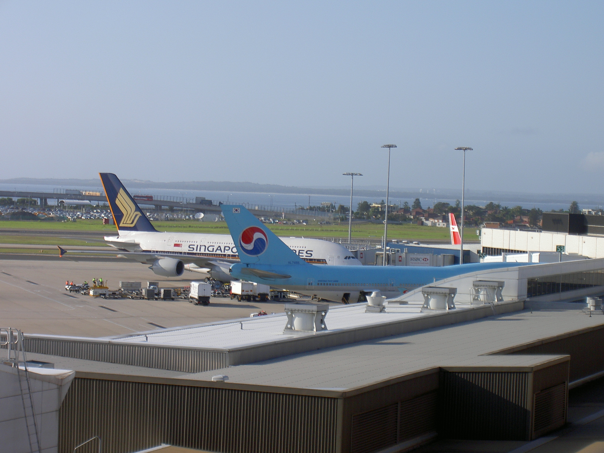 Sydney Airport. This picture was transferred from Wikipedia and re uploaded on Commons.